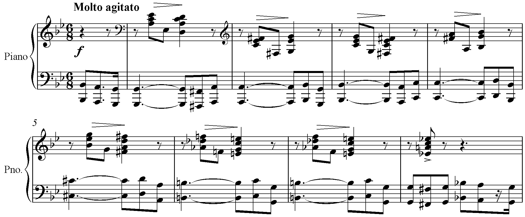 9 first bars of Chopins prelude 22 op. 28